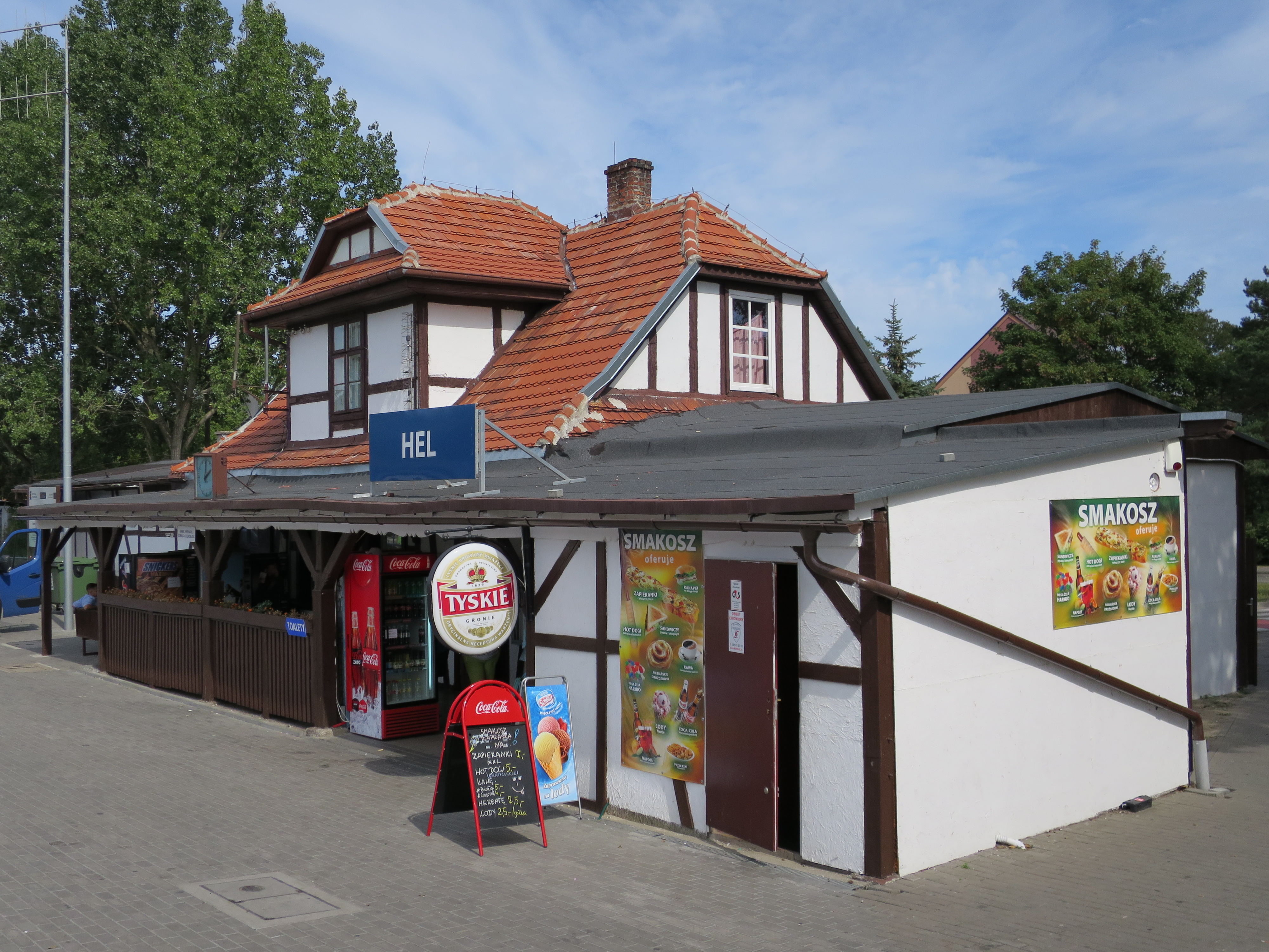 Hel This photo was taken during Railway Wikiexpedition 2015 set up by Wikimedia Polska Association in cooperation with Fundacja Grupy PKP. You can see all photographs in category Wikiekspedycja kolejowa 2015.